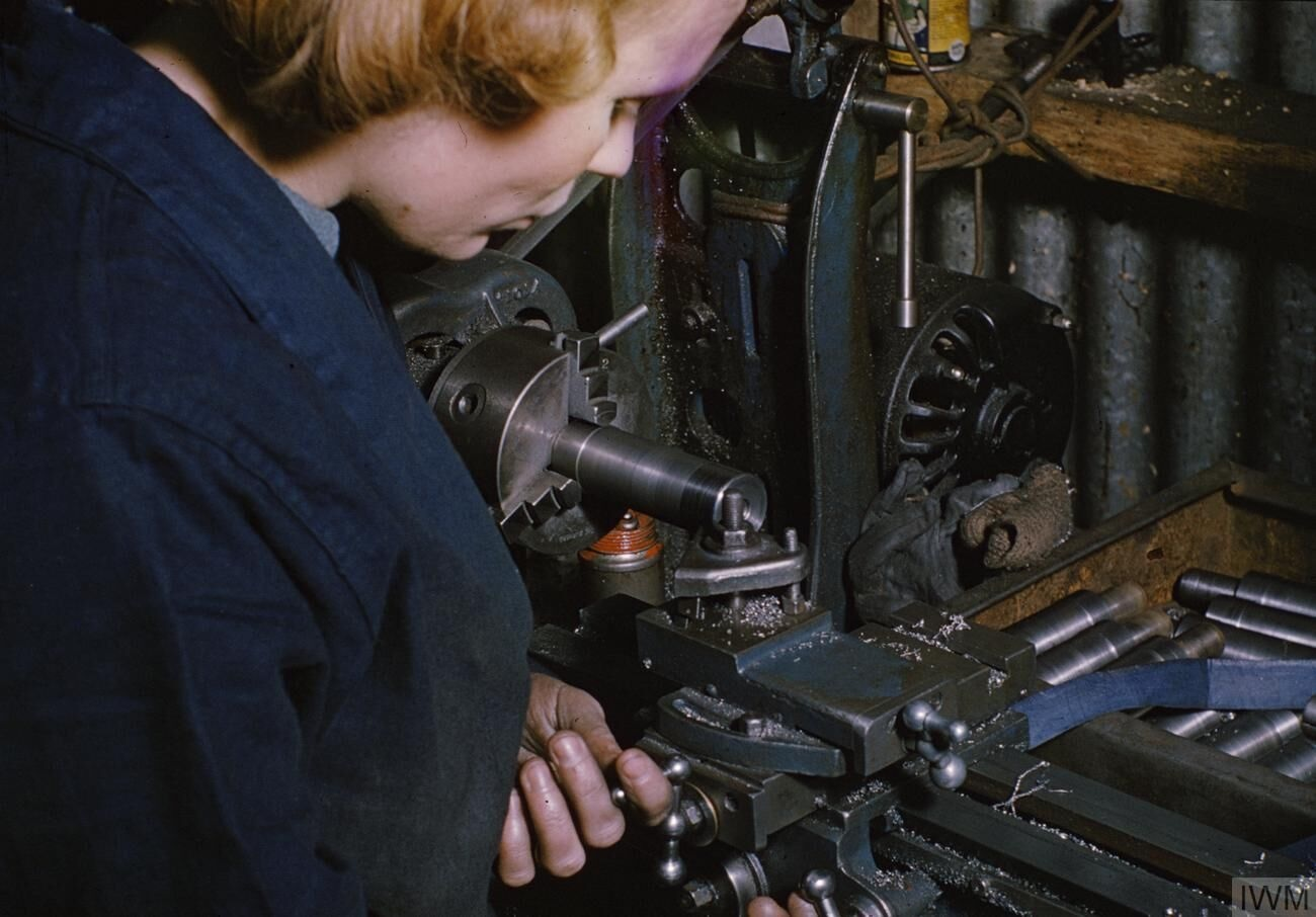 Sten Gun Production in Britain, 1943 Mrs Lusby, a part-time worker at a small workshop, levelling off and making the firing pin during the first stages of breech block production.